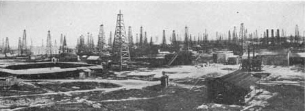 "Oil field near Jennings, Louisiana".